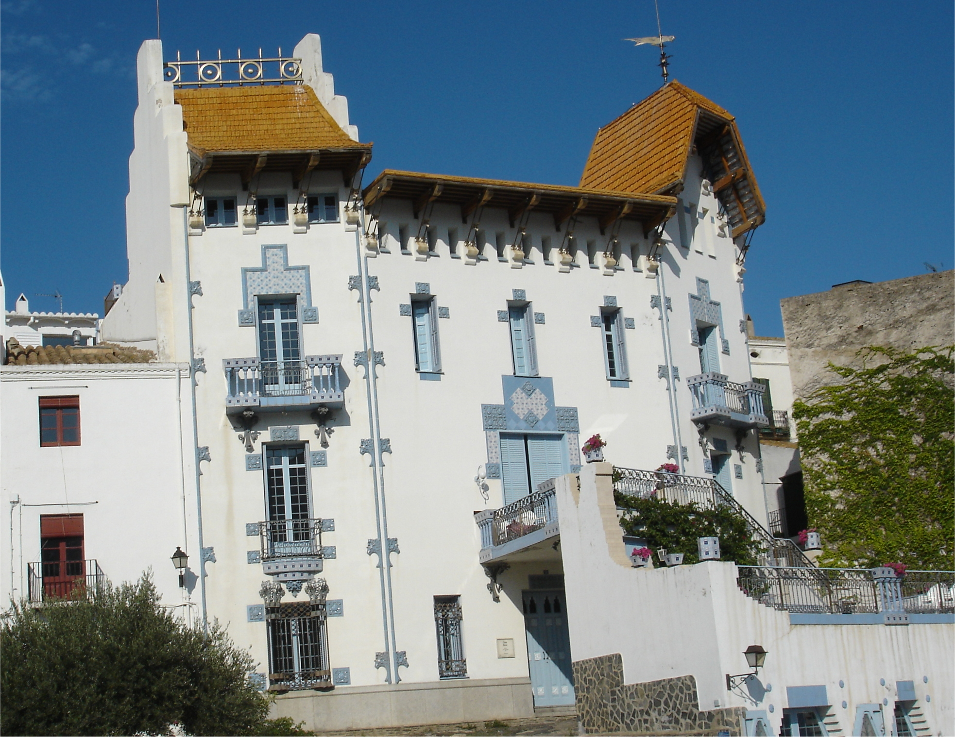 Cadaqués's Blue House. (Spain) . Reframed picture.